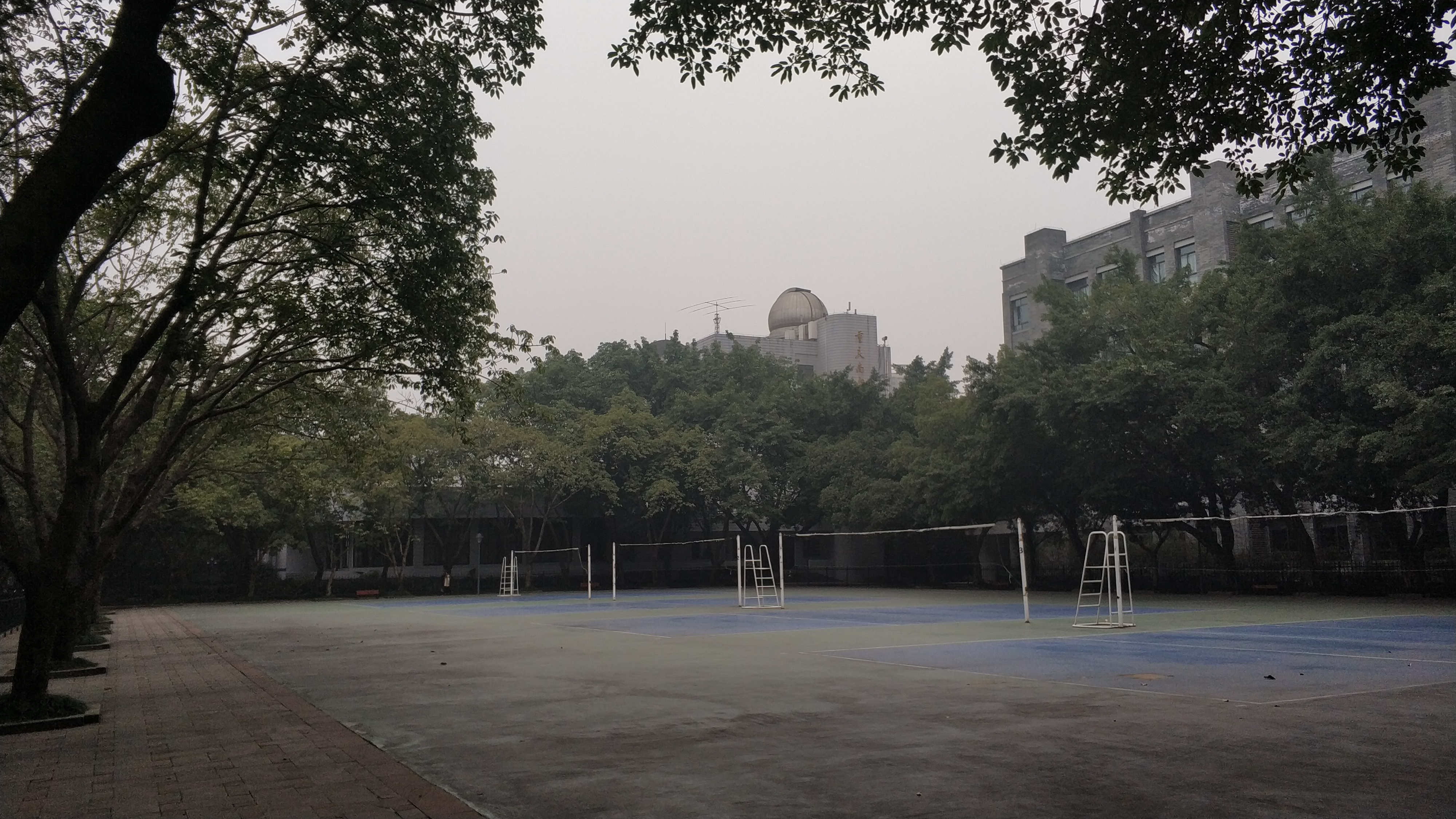 A photo of Volleyball Court of Nankai